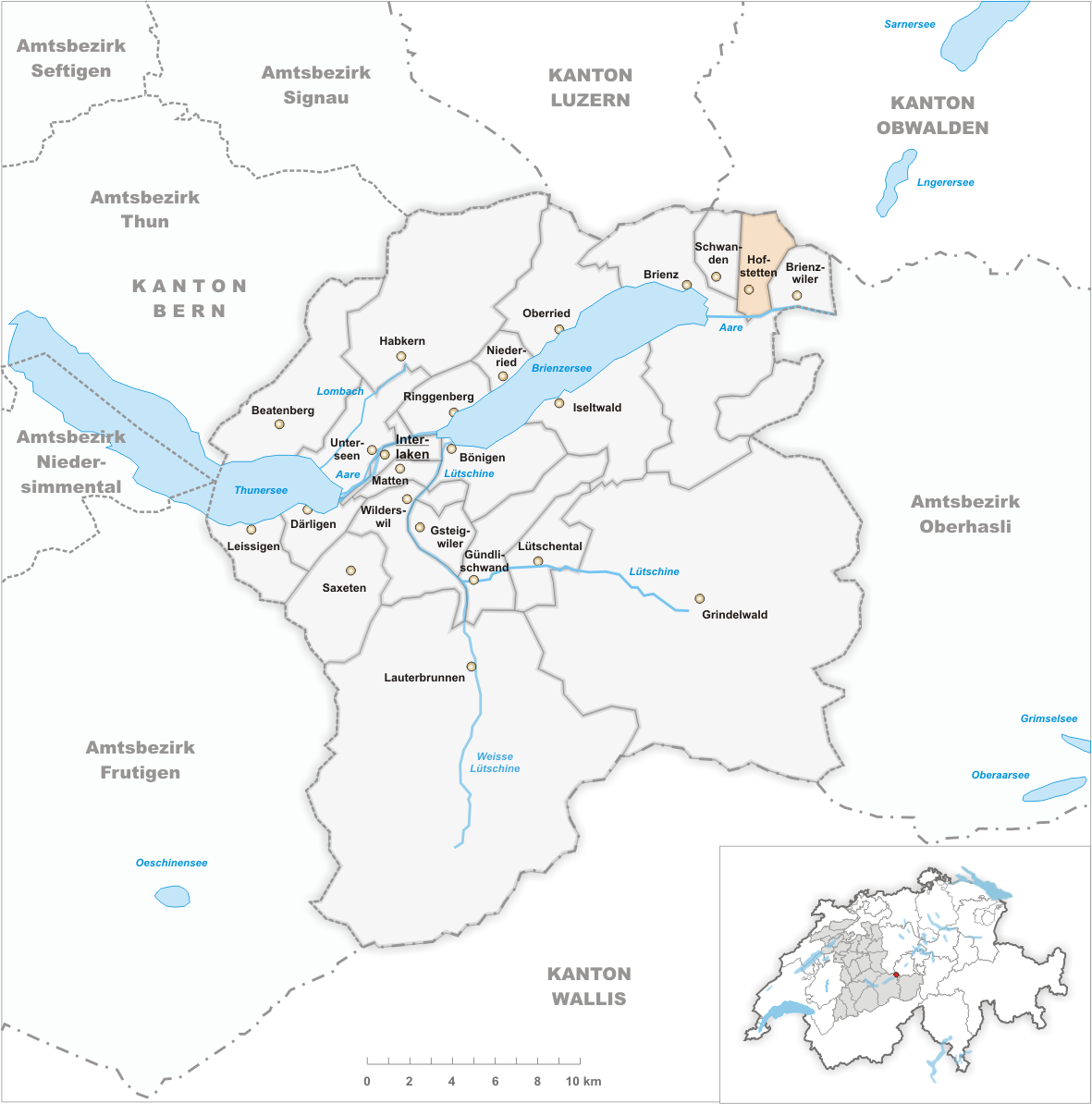 Municipality Hofstetten bei Brienz